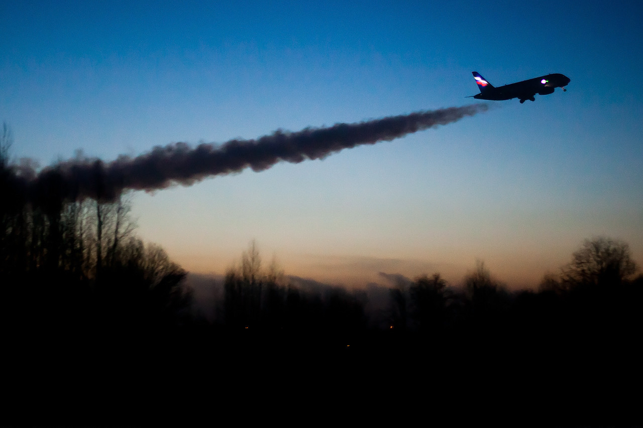 Aeroflot Sukhoi Superjet 100-95 (RA-89057) take off at Syktyvkar Airport on a -40°C day.